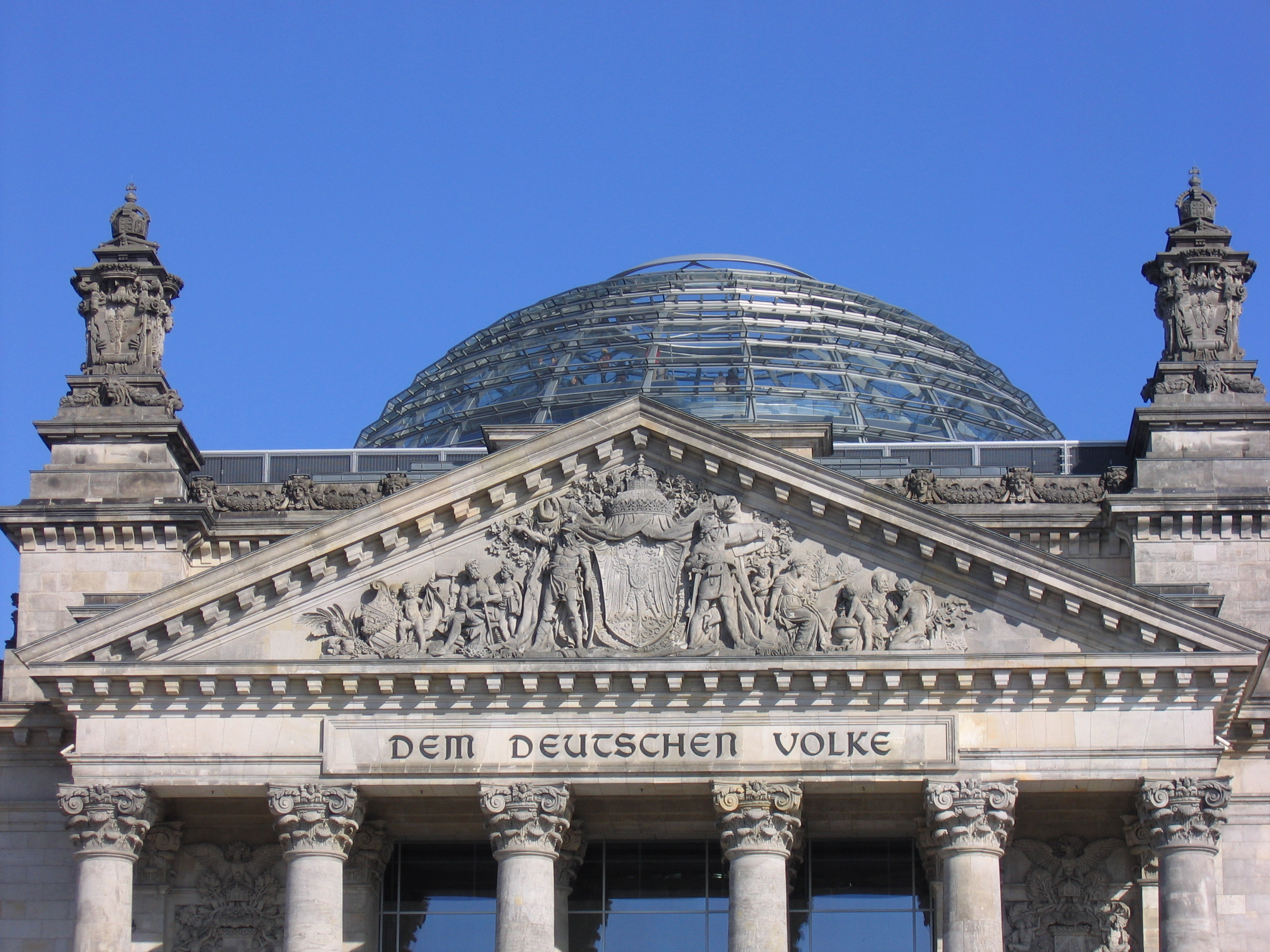 Reichstag